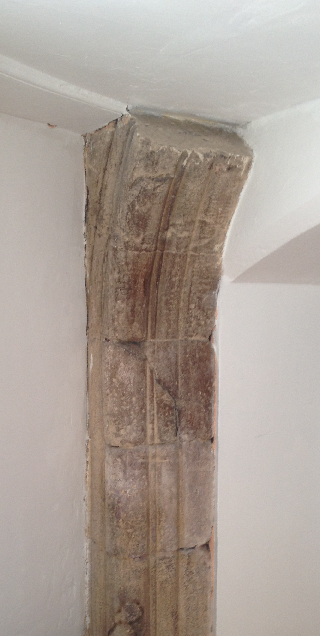 Fragment of medieval doorway located within Hospitalfields House.